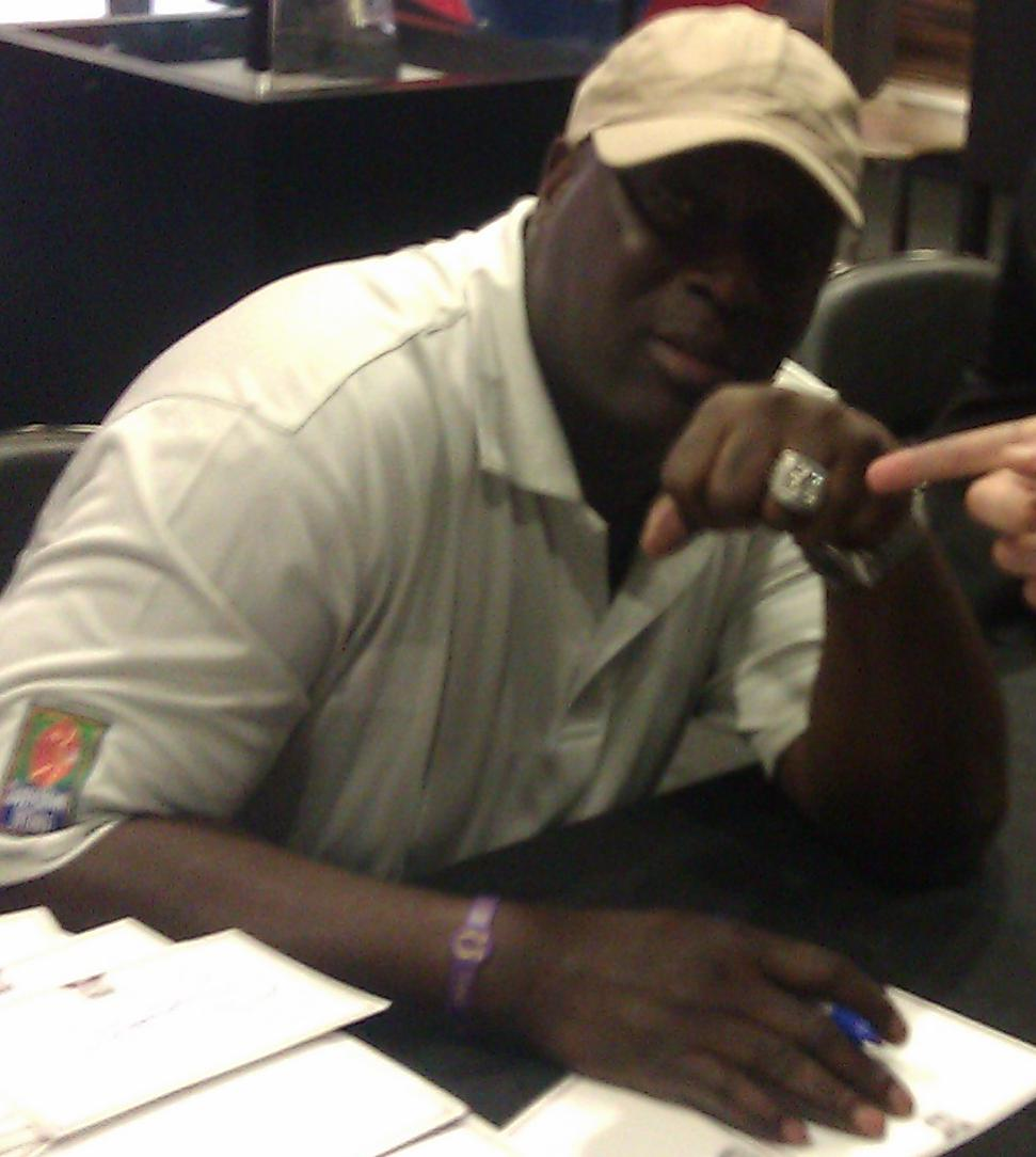 Depicted person: Ottis Anderson – American football player